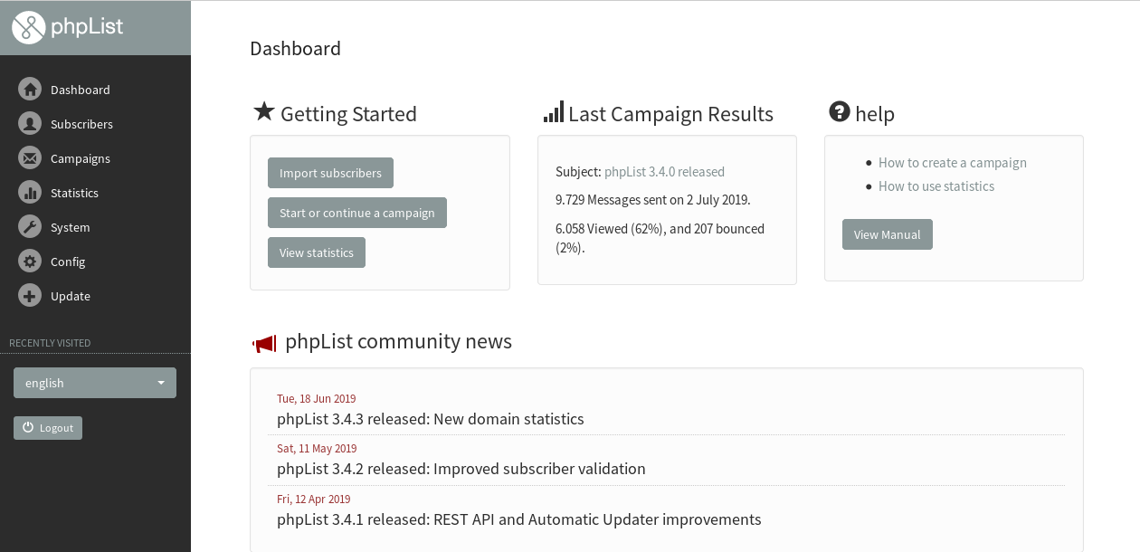 This is a screenshot from the phpList dashboard.